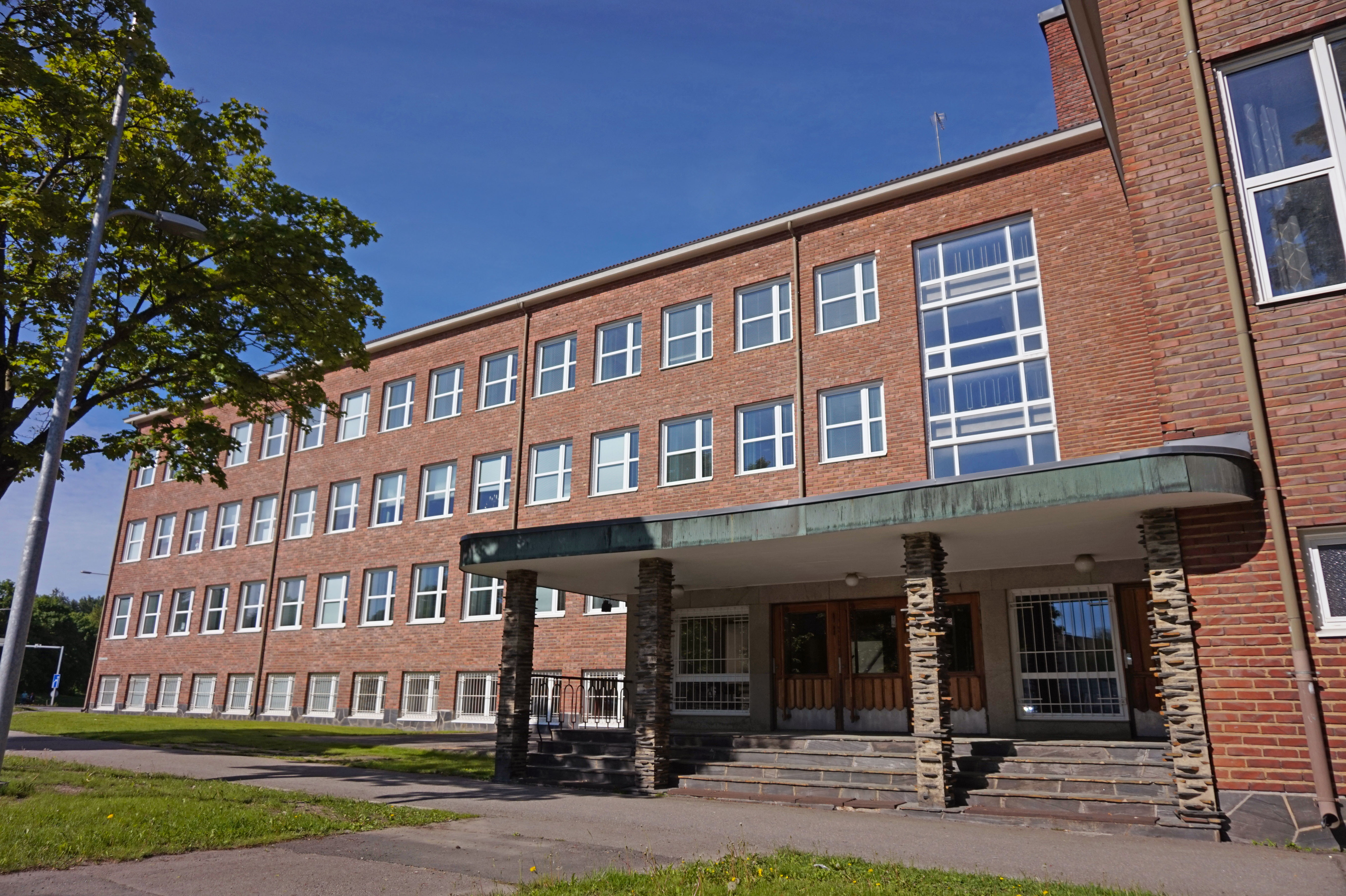 Kaleva highschool in Tampere, Finland.This photograph was taken with a Sony ILCE-5000